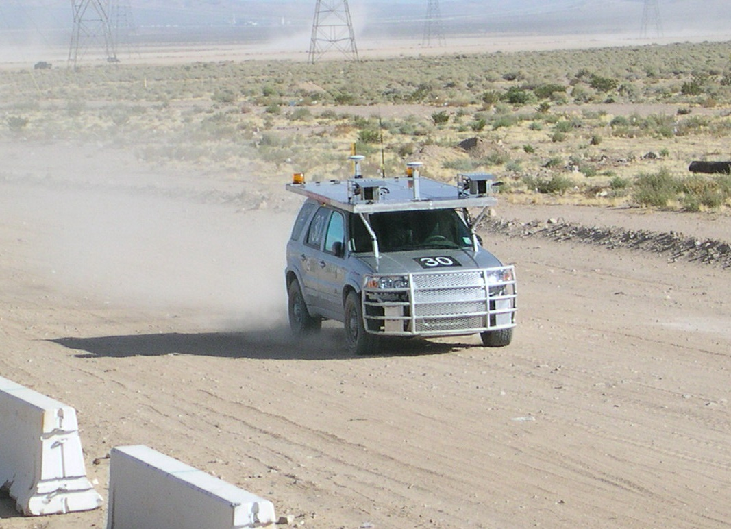 Kat-5 at mile 8 in the 2005 DARPA Grand Challenge. Personal picture taken on October 8, 2005, at the 2005 DARPA Grand Challenge in Primm, NV.